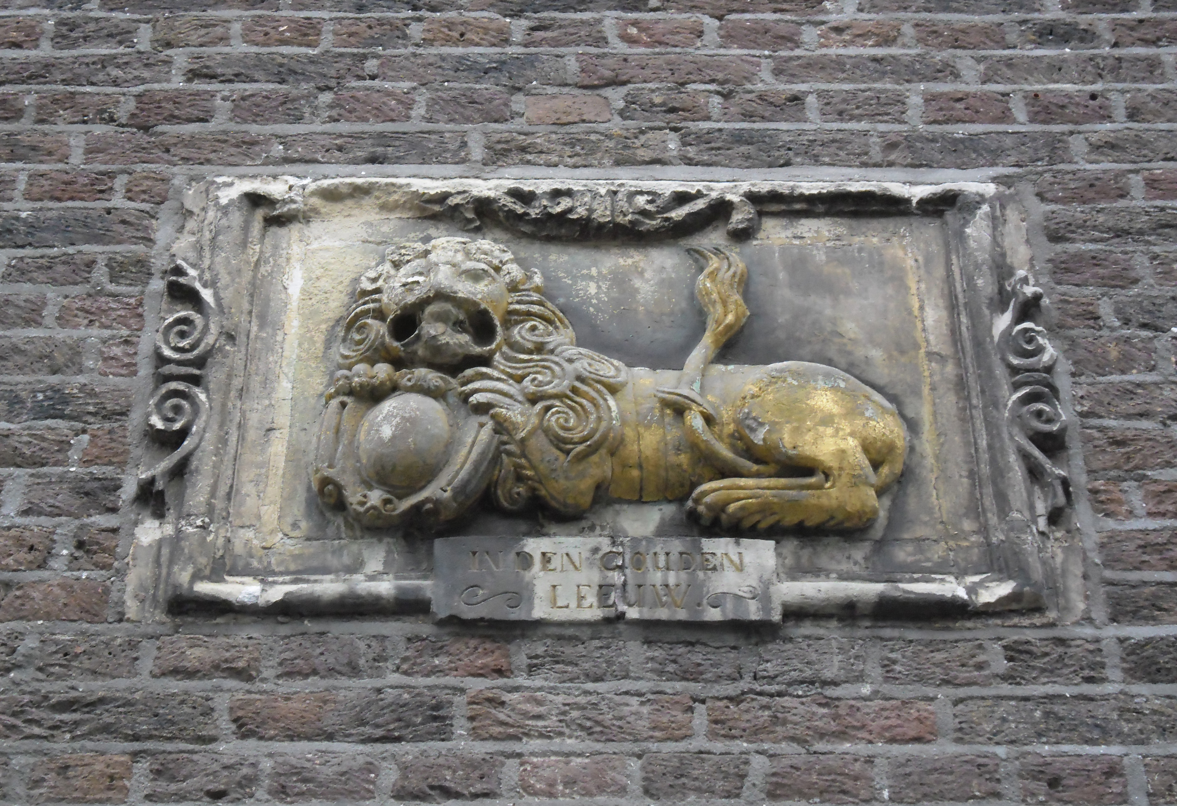 National monument no. 27877 - Rechtstraat 69, Maastricht, The Netherlands